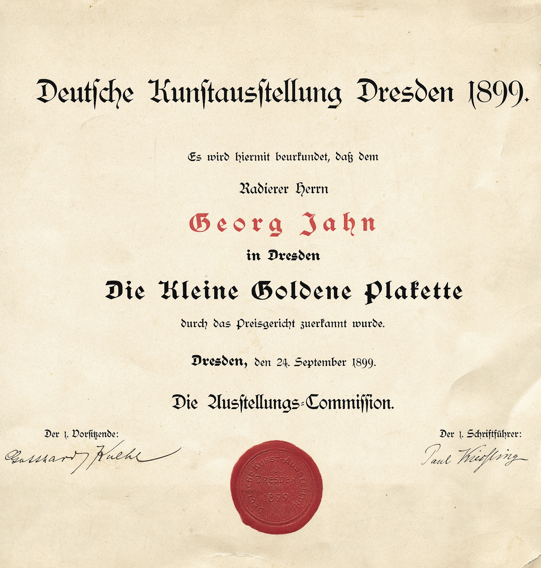 Golden badge